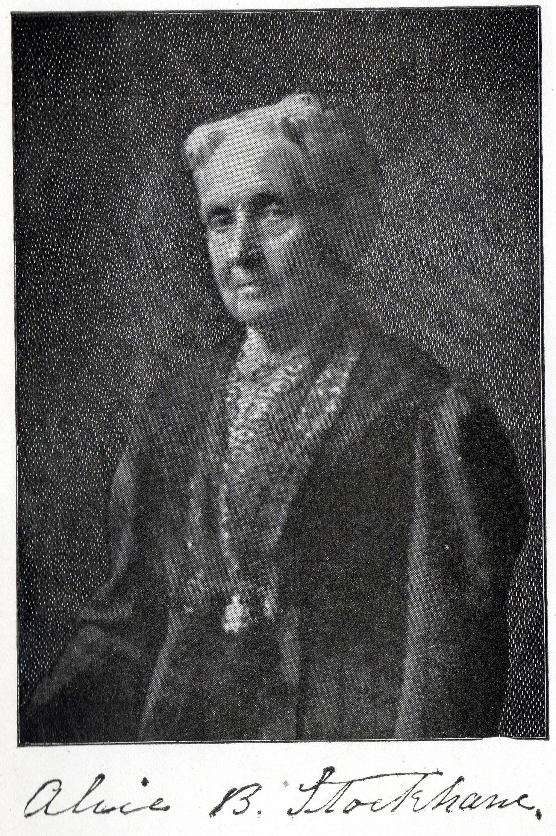 Portrait of Dr Alice Bunker Stockham. US Obstetrician, Gynaecologist, Feminist.